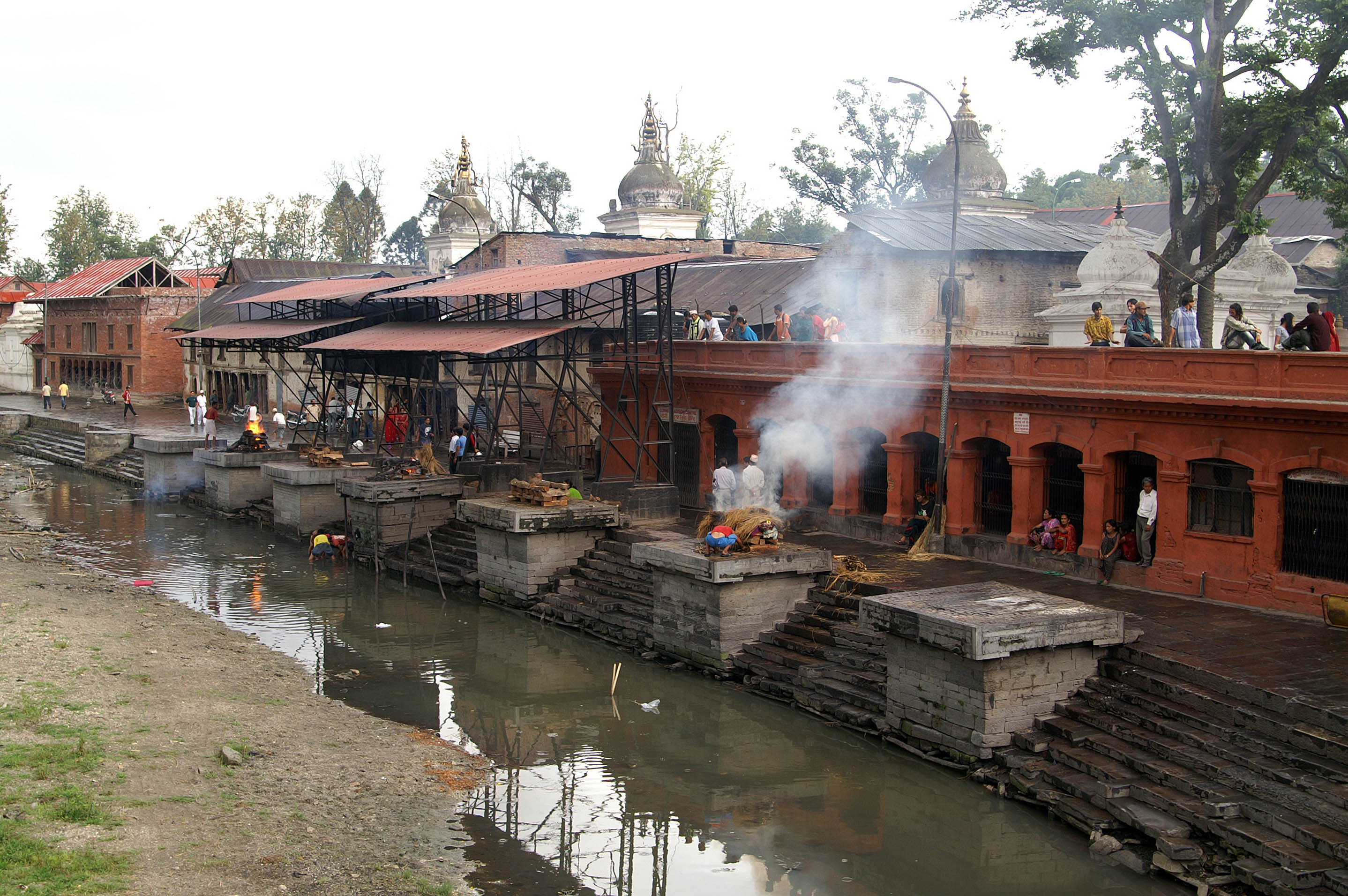 Cremations taking place on the Bagmati riverbank at Pashupatinath temple in Kathmandu. Taken by: Peter Akkermans, Nepal May 2007 Website: flickr Tags Pashupatinath Hindu Cremation